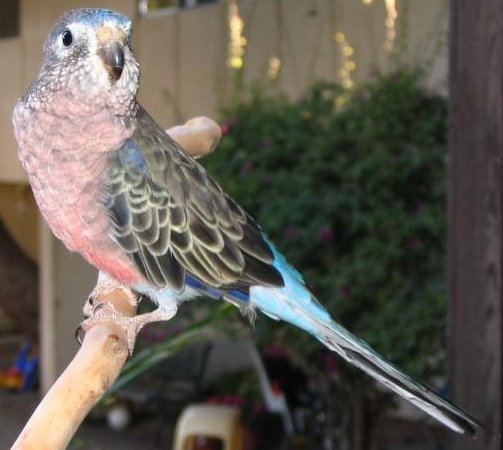 Bourke's parrot, (Neopsephotus bourkii).